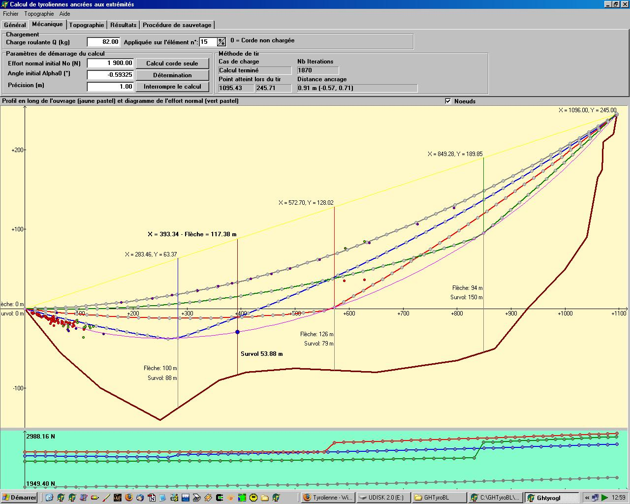 Screenshot of GHTyro 2.00 tyrolean calculation software with TPR project